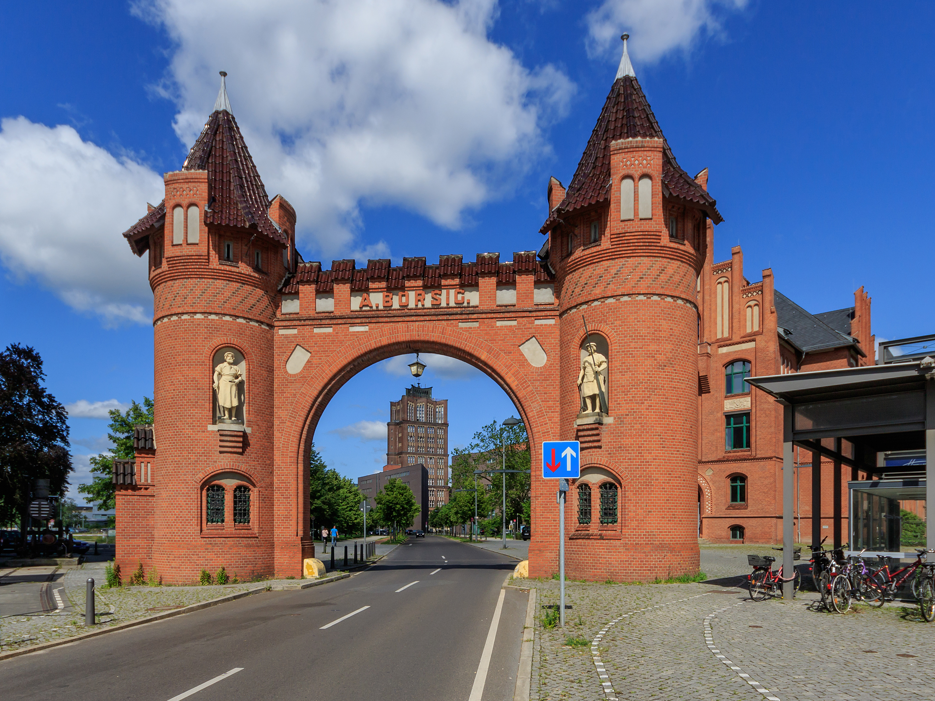 Former Borsig AG plant in Berlin (Germany)